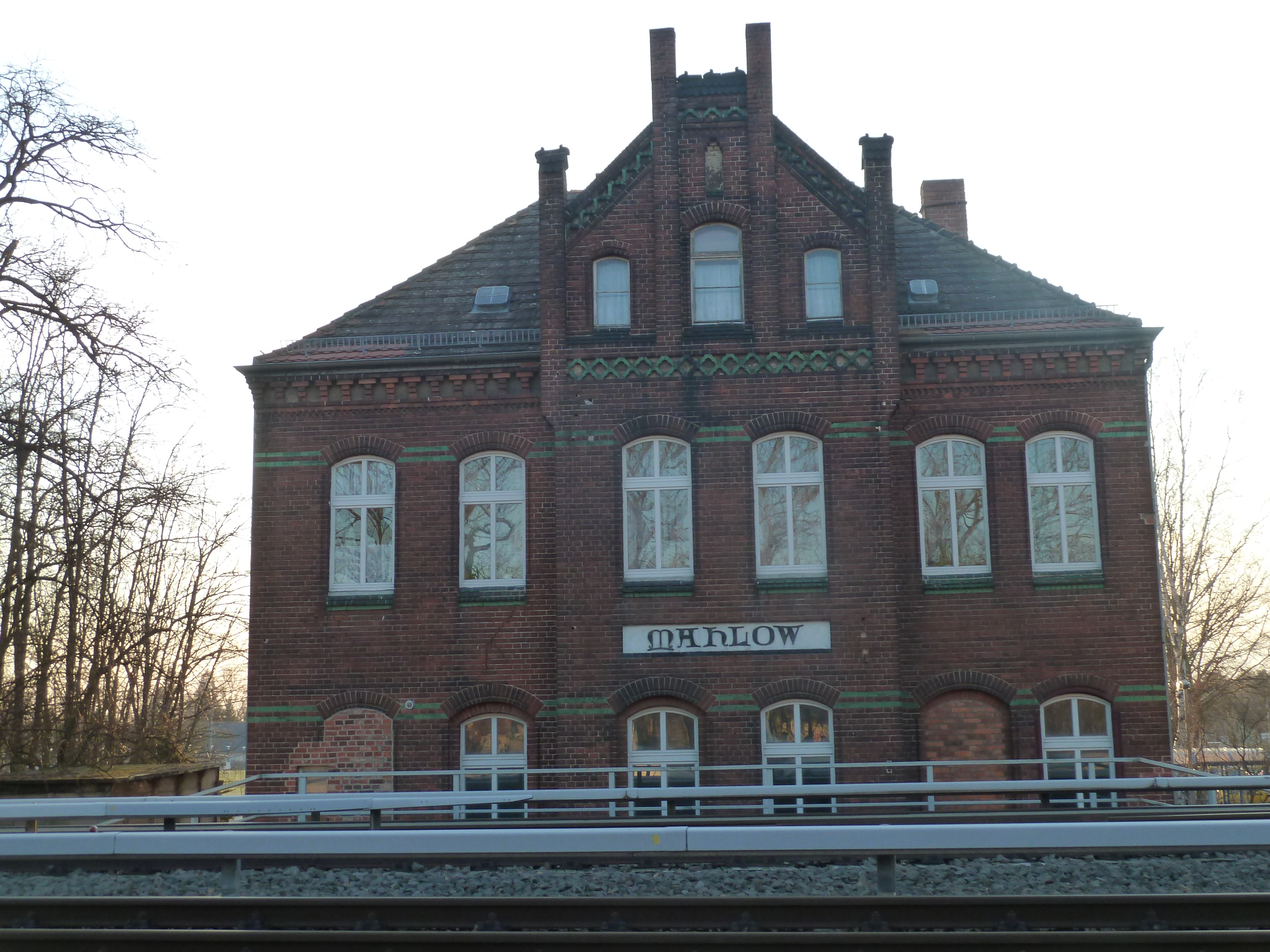 Mahlow, former military train station